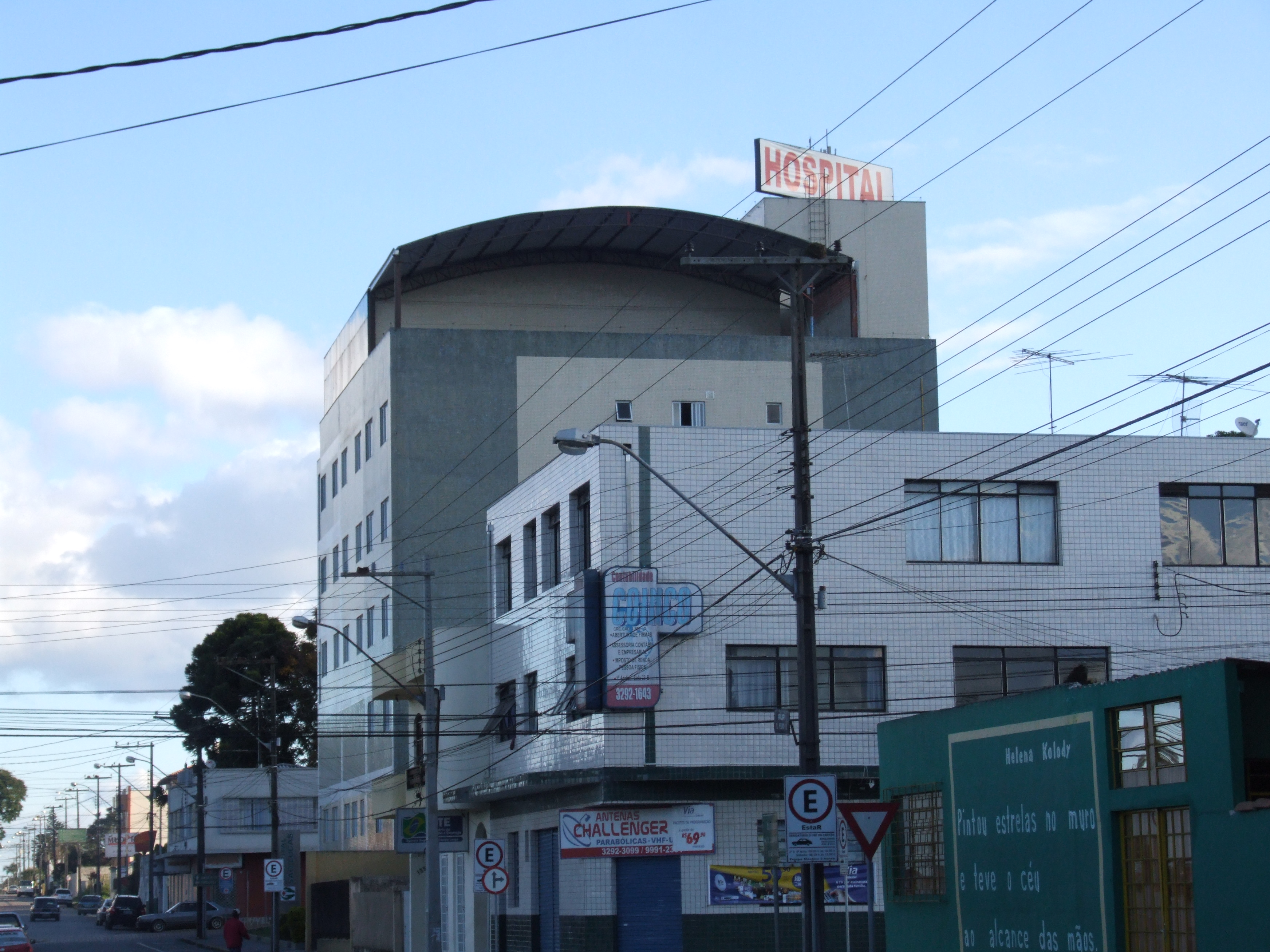 São Lucas Hospital in Campo Largo, Paraná, Brazil.